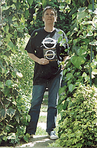 Clare Torry original singer on Great Gig in the Sky rocking the Dub Side look, Summer 2003